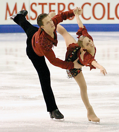 Valerie Marcoux and Craig Buntin compete in the long program at the 2004 Four Continents Championships in Hamilton, Ontario. Photo taken by me. Vesperholly 21:02, 16 July 2006 (UTC)